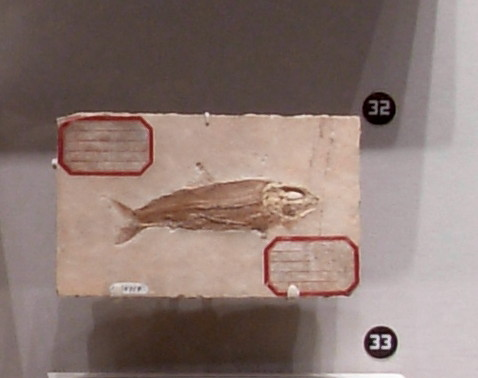 A fossil Furo longiserratus from the Solnhofen limestones of Germany. Carnegie Museum of Natural History #cm4719